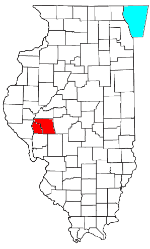 Locator map of the Jacksonville Micropolitan Statistical Area in the western part of the U.S. state of Illinois.